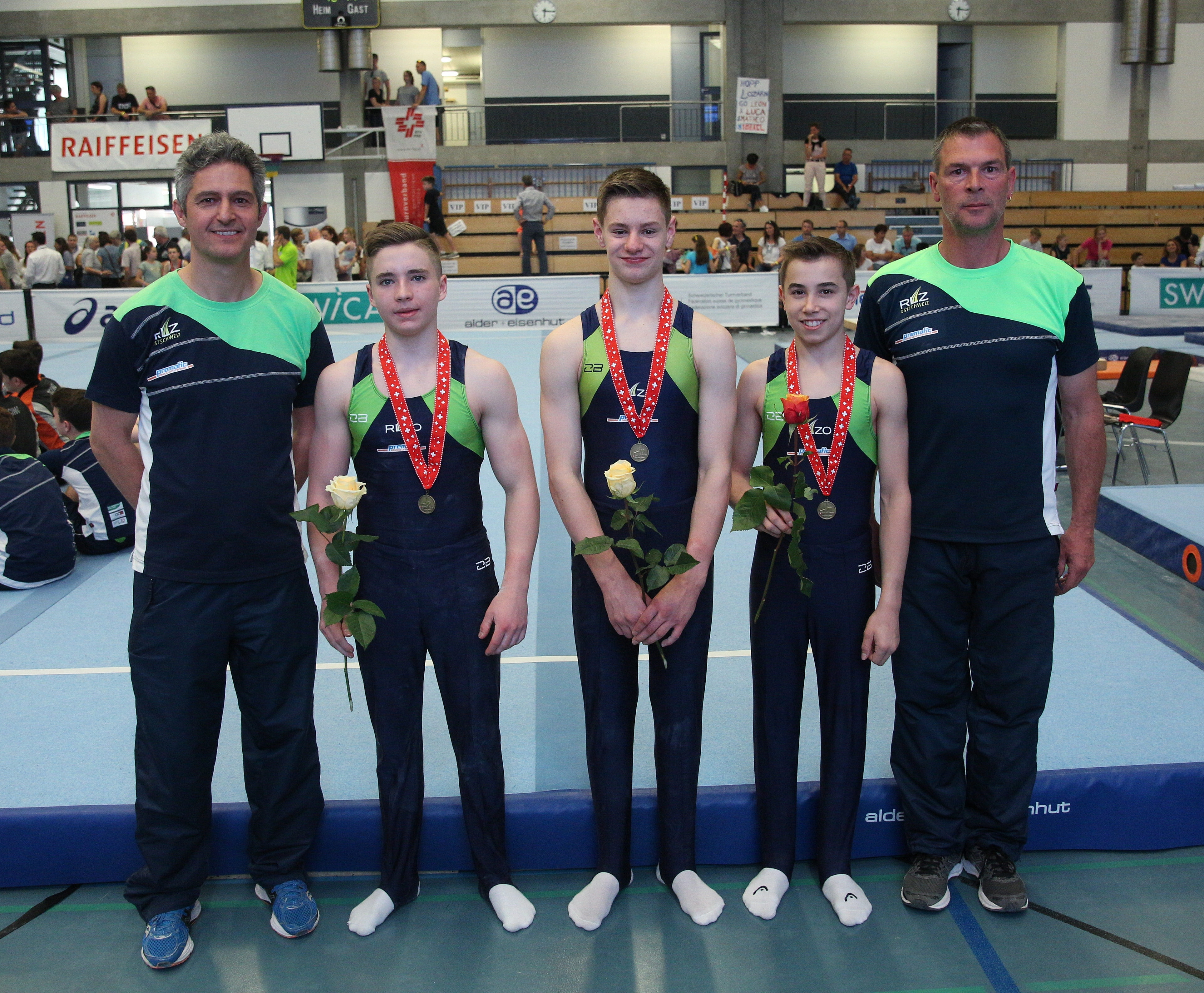 Victory ceremony for the P5 all-around competition at the Swiss Junior Championships Artistic Gymnastics 2019 in Zuchwil on 1 June 2019. Depicted: Kilian Schmitt. Lars Engeli. Tim Landolt.